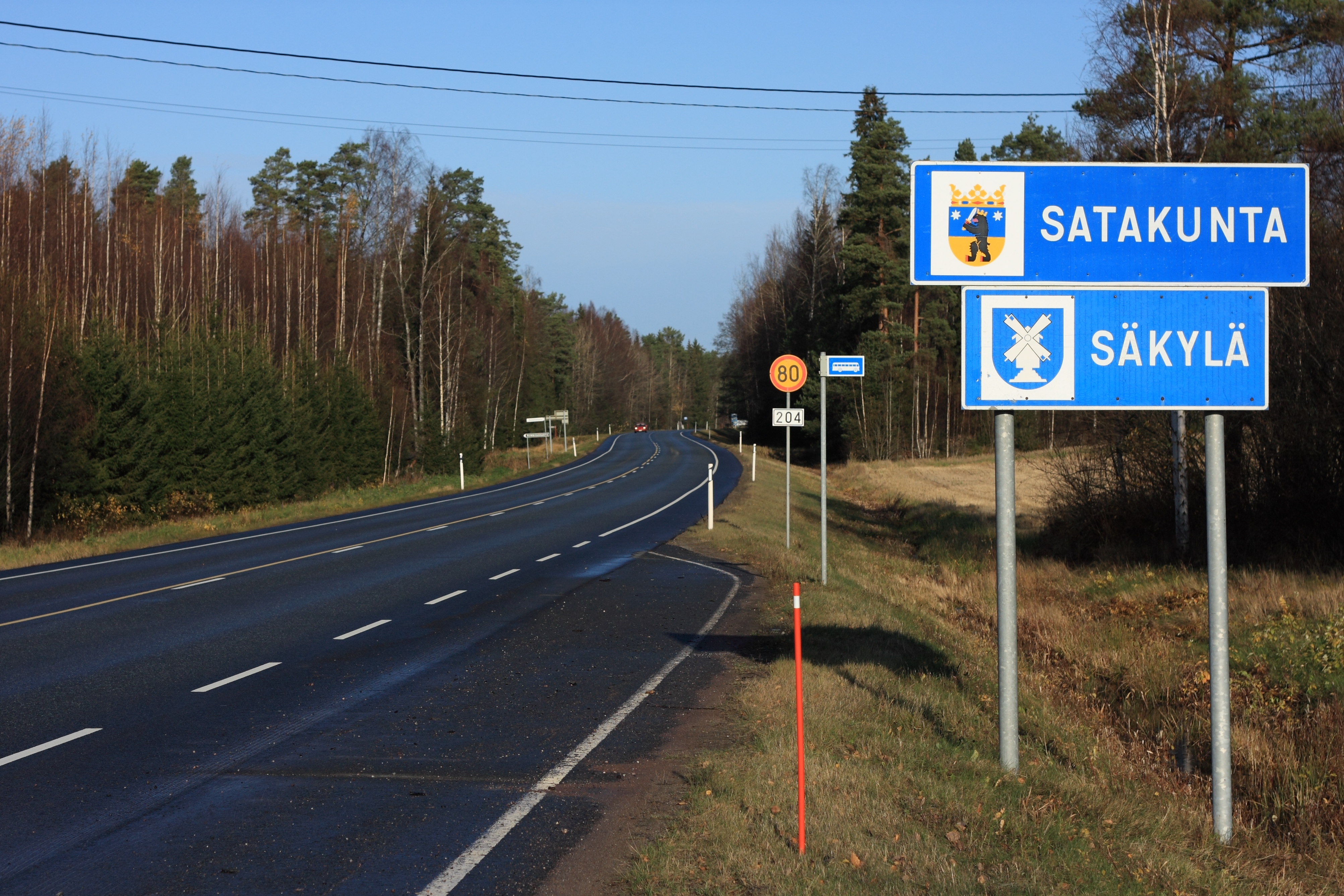 Regional road 204 in Säkylä, Finland.